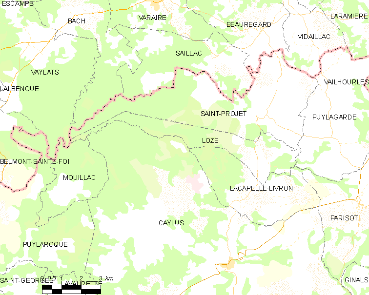 Map of French municipality Loze